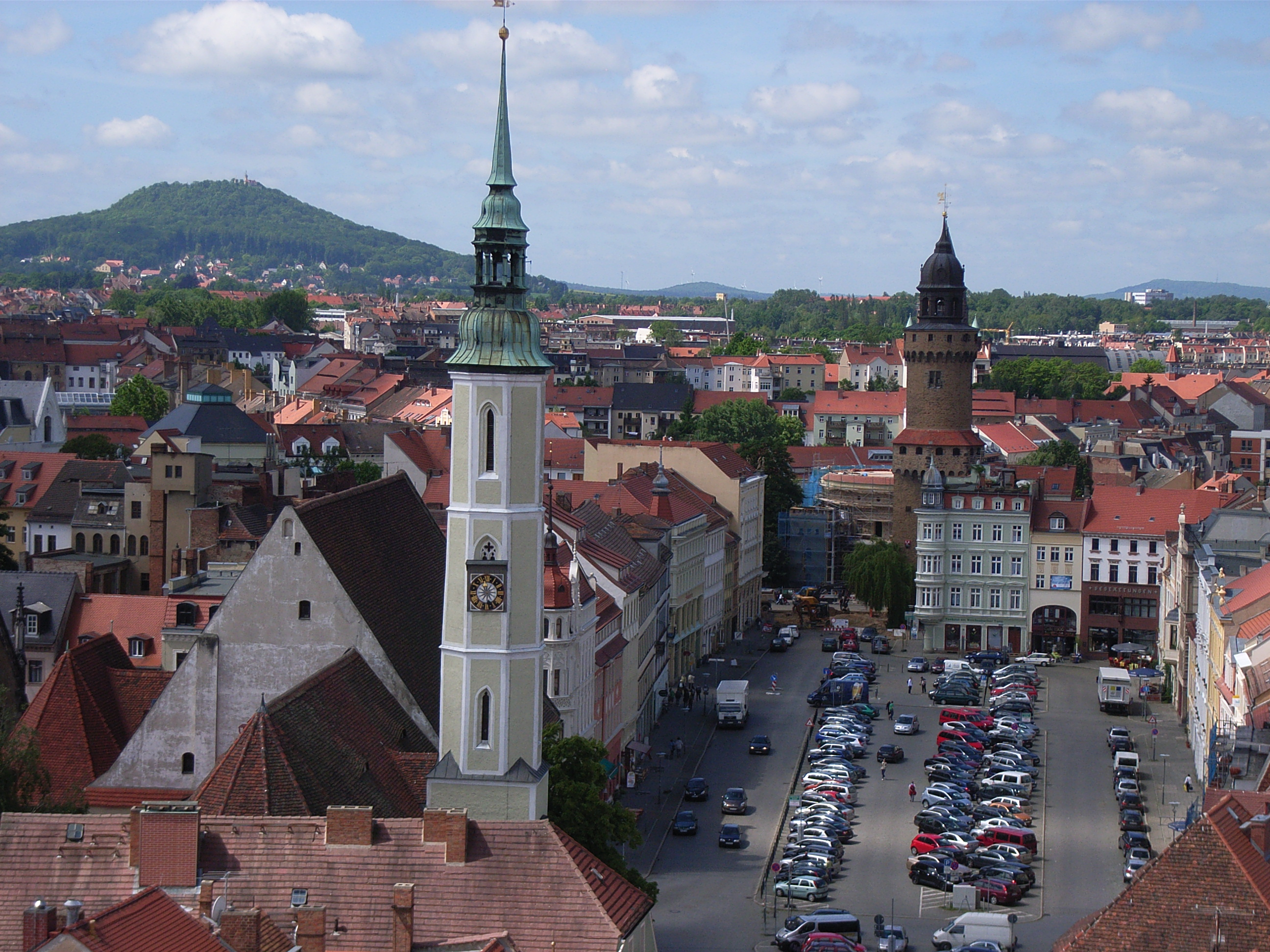 Square "Obermarkt" in Görlitz, Saxony